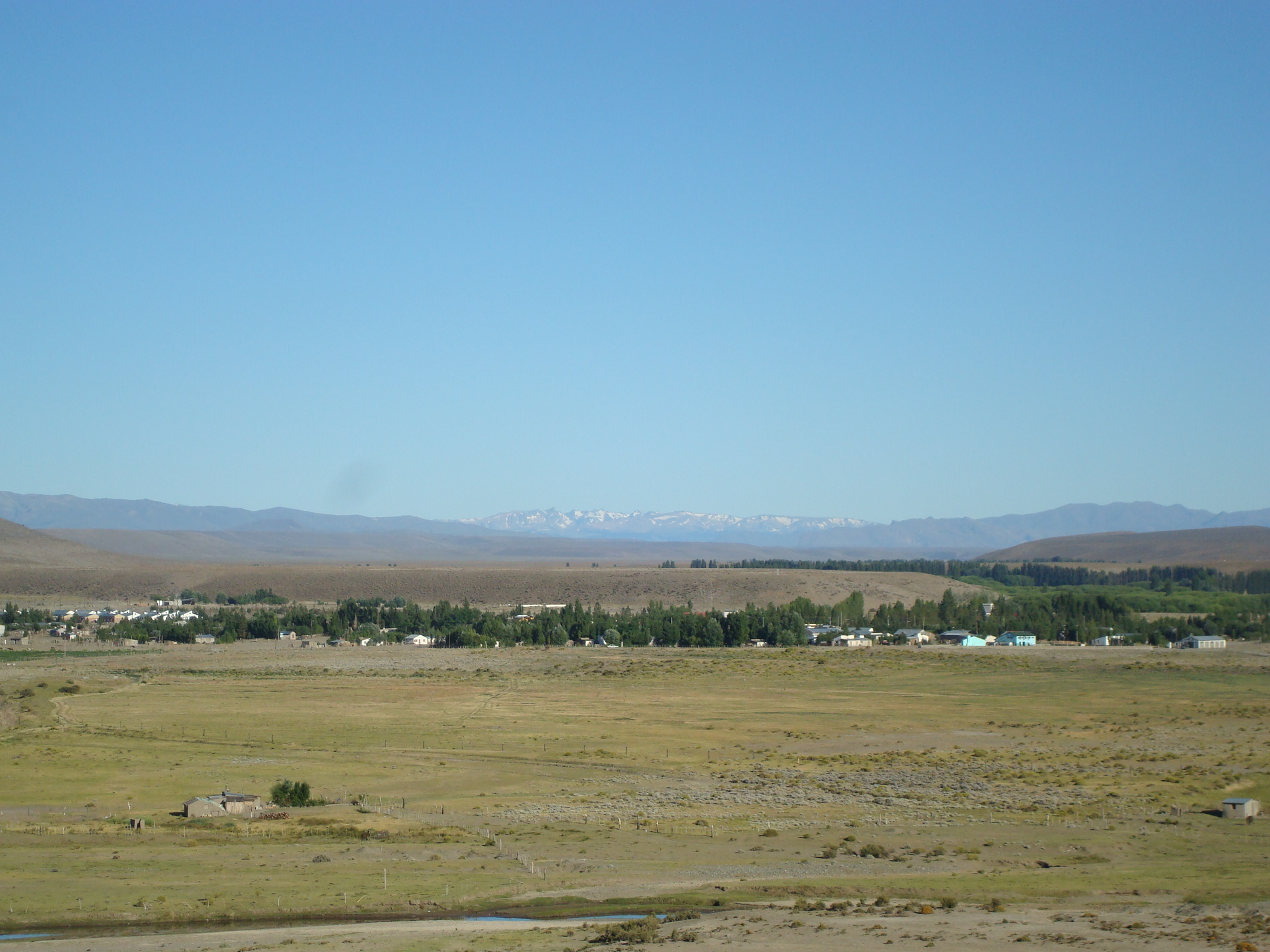 Cushamen